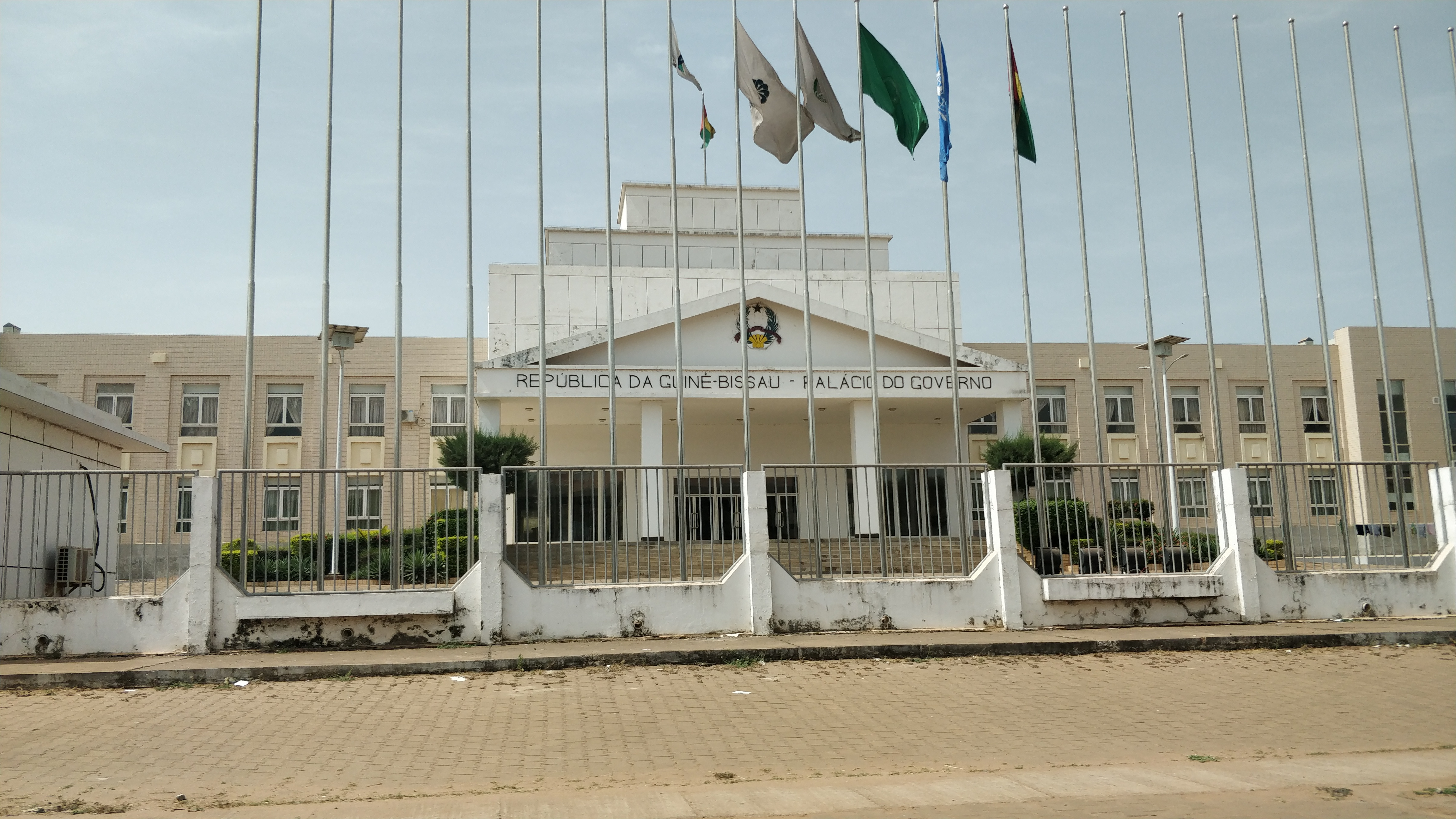 Palace of the Government of the Republic of Guinea-Bissau in Bissau